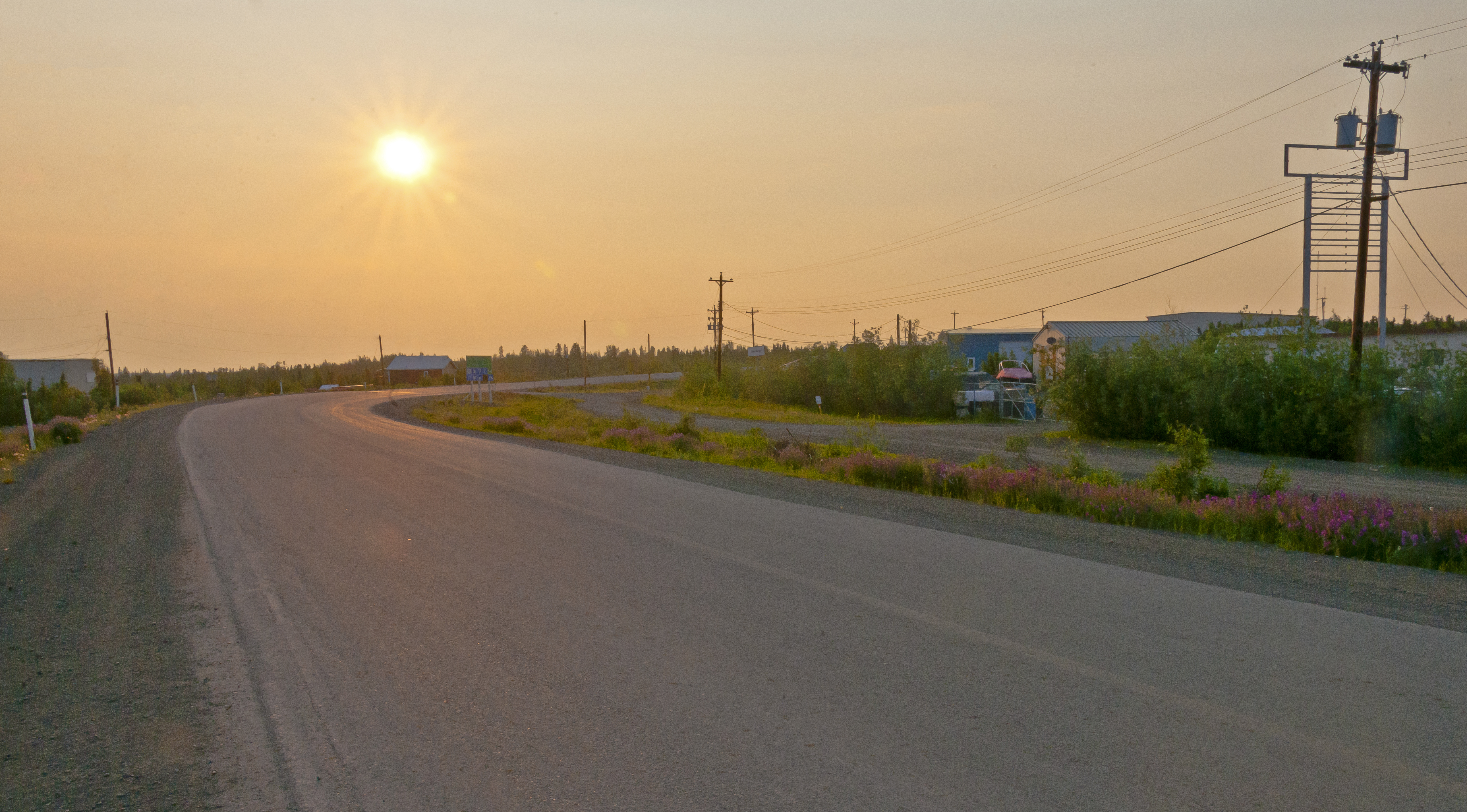 Midnight sun over the Dempster Highway south of Inuvik, NT, Canada